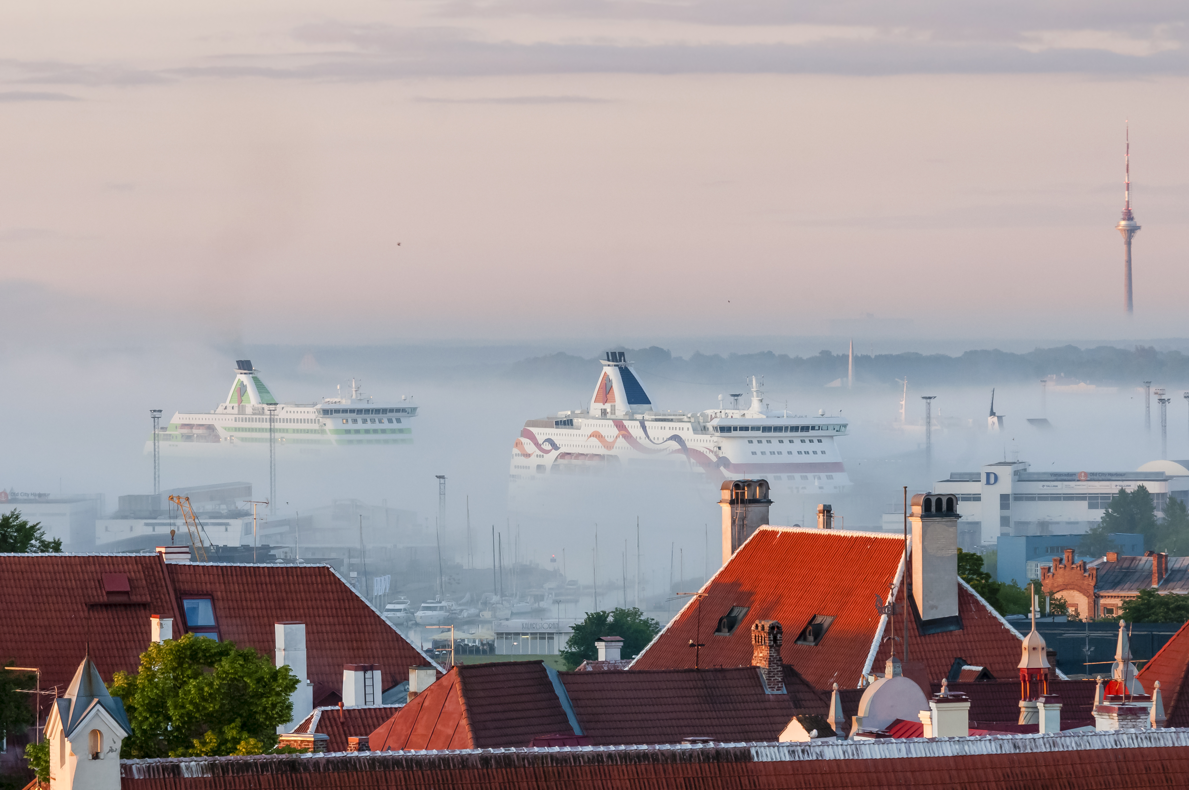 Tallinn old city harbour.